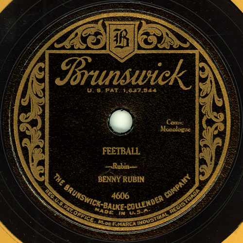 Label scan of 1929 Brunswick Records label